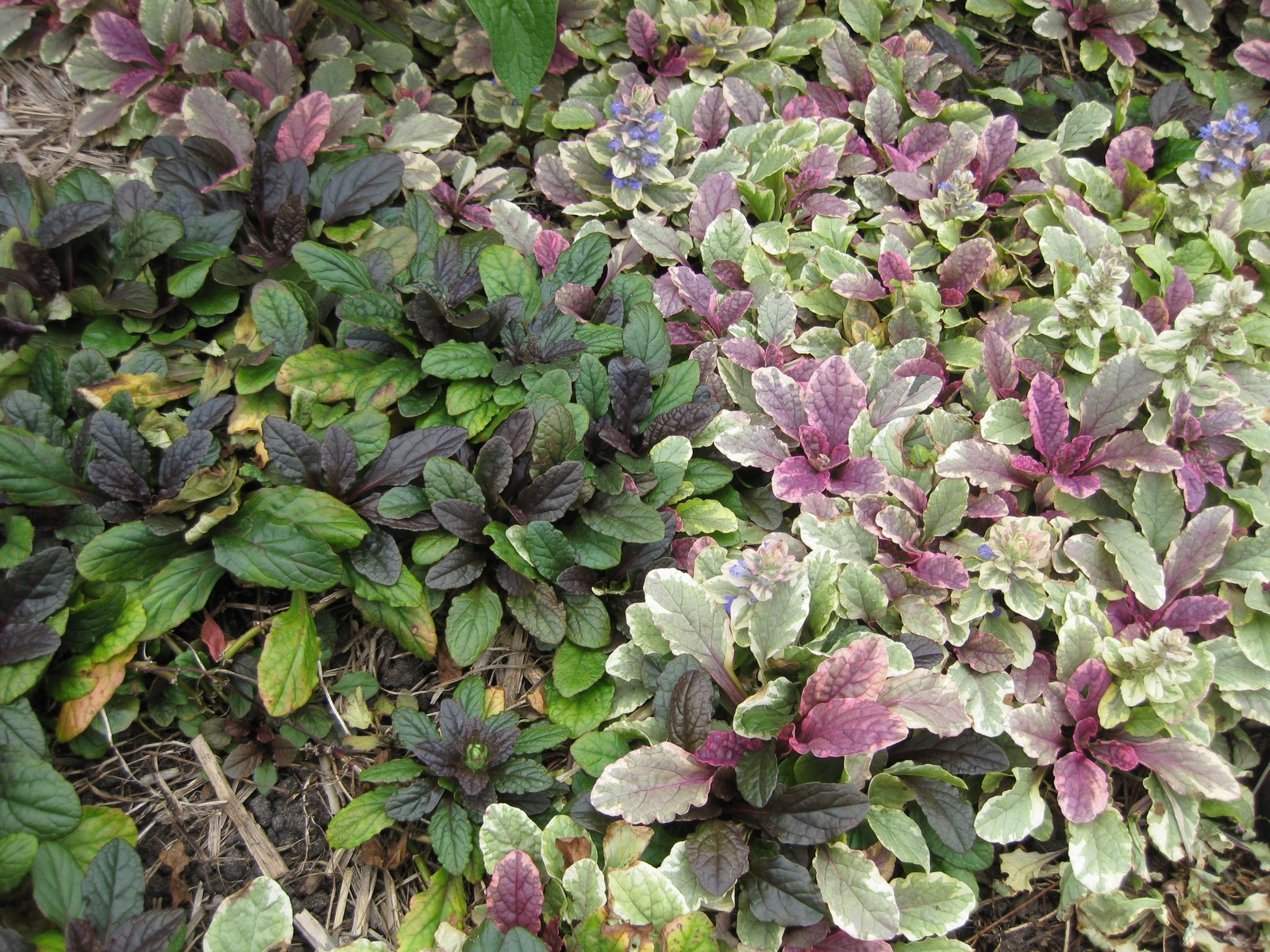 Photographed at the Royal Botanic Gardens Sydney (Australia) in January